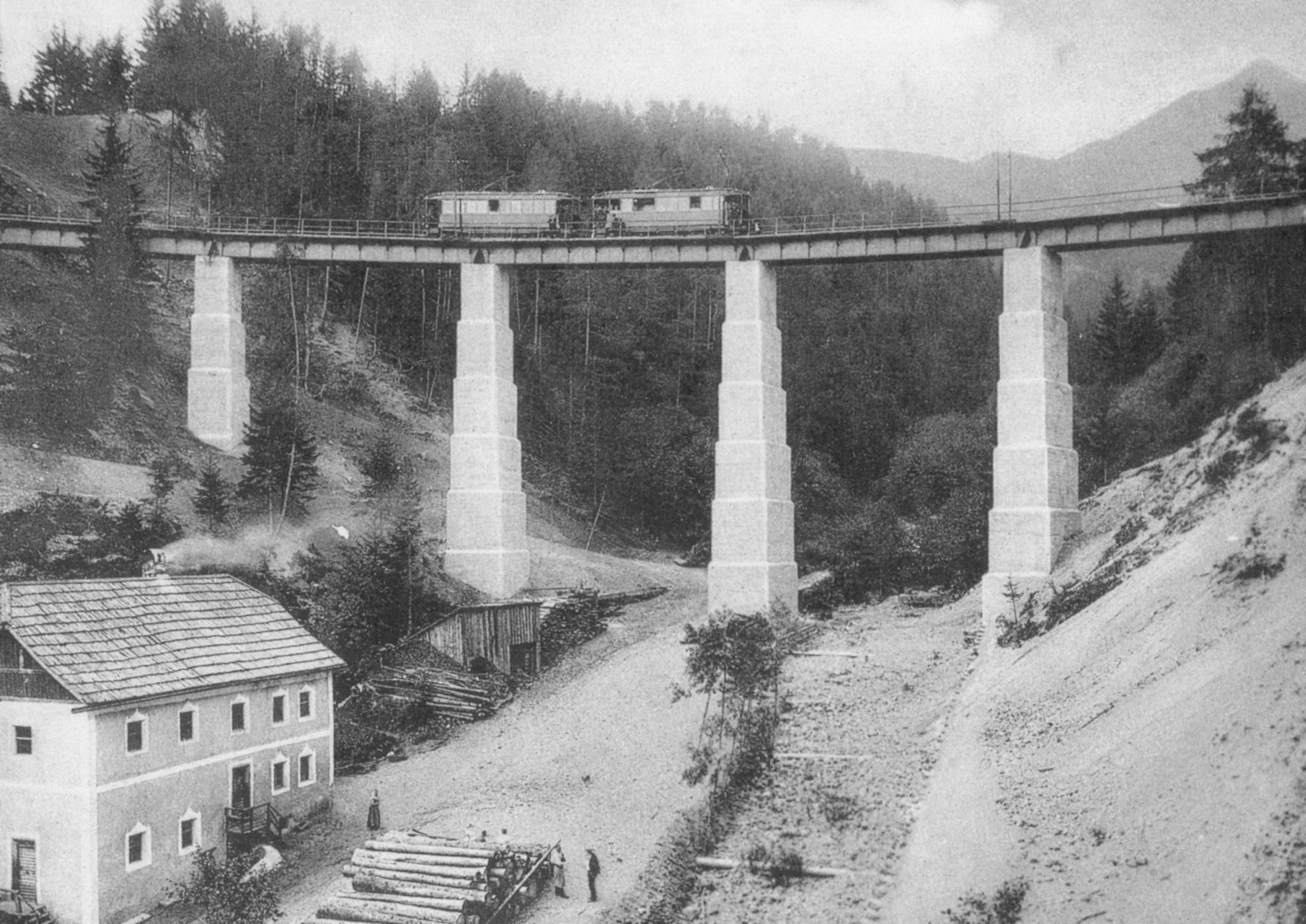 A train of the Stubaitalbahn in Tyrol, Austria, is passing the Mutterer bridge